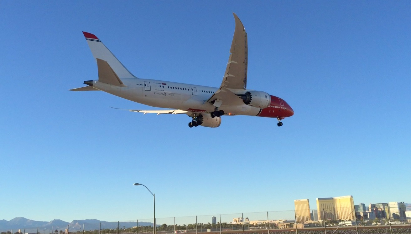 A Norwegian Air Shuttle Boeing 787-8 landing at McCarran Airport (LAS) from Stockholm.